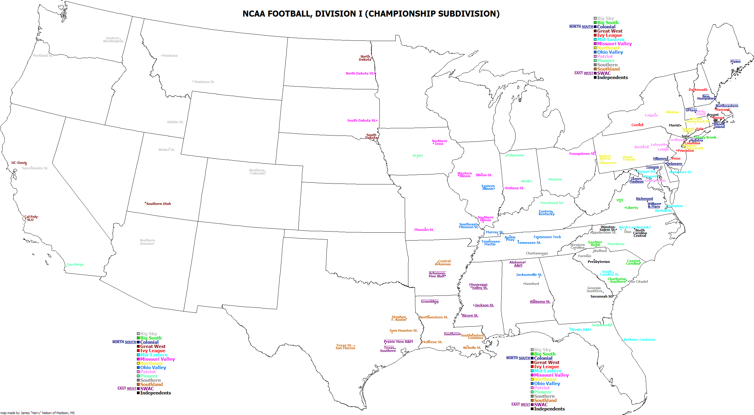 A map of all National Collegiate Athletic Association (NCAA) Football Championship Division I-AA (now the Football Championship Subdivision (FCS)) schools.